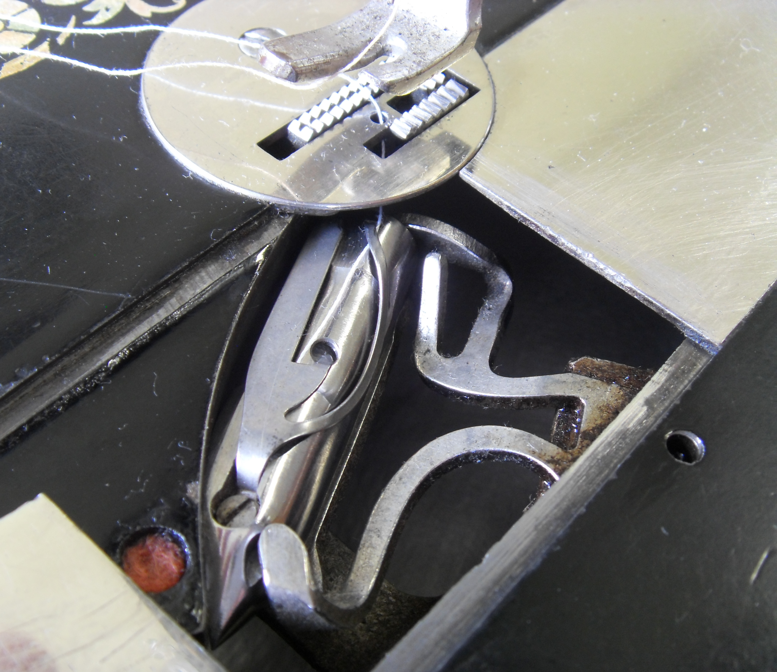 Close-up picture of a Singer sewing machine's "vibrating shuttle" in its carrier.